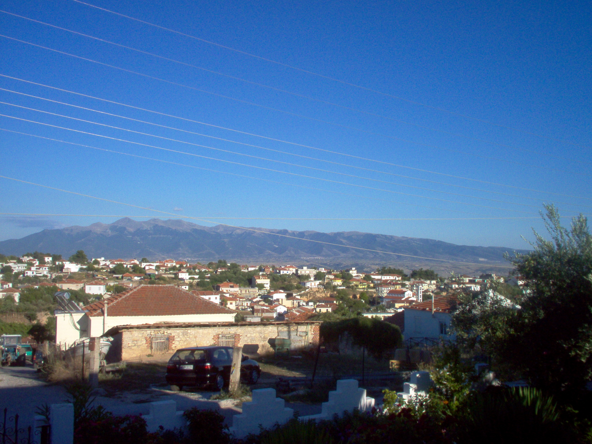 Nea Zichni